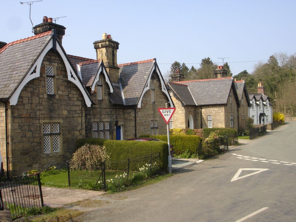 Cottages by John Gibson for the Plas Power Estate, Bersham